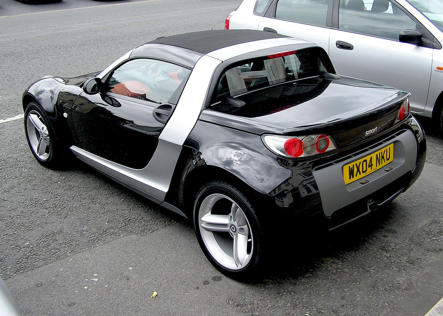 2004 Smart Roadster in Chipping Sodbury, Bristol, England. Taken by Adrian Pingstone in July 2004 and released to the public domain.